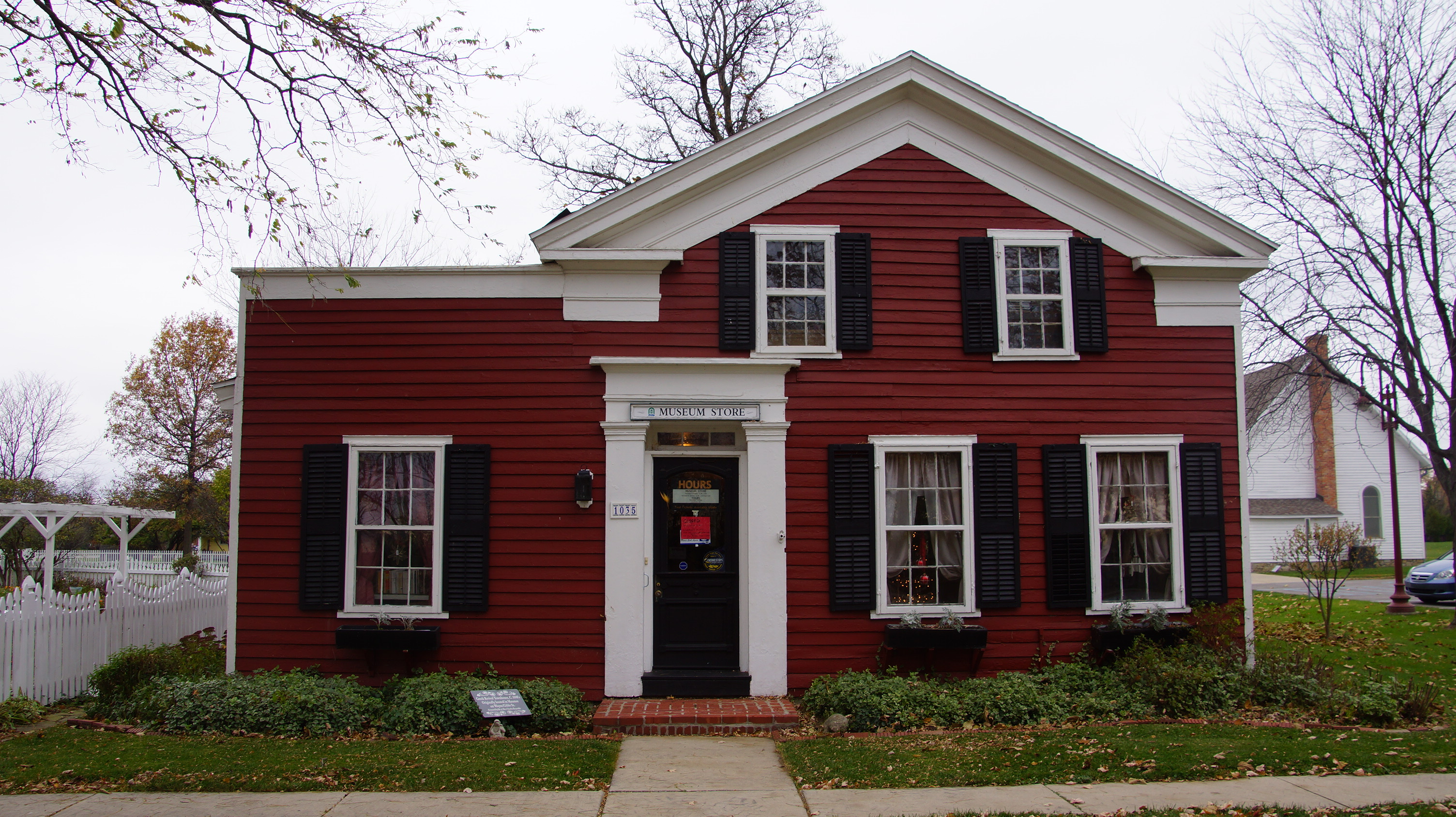 Maumee OH - Greek Revival Townhouse - Built in 1840's - Originally located on Wayne and Gibbs Street in Maumee - Donated by Mr and Mrs Charles Reynolds 02